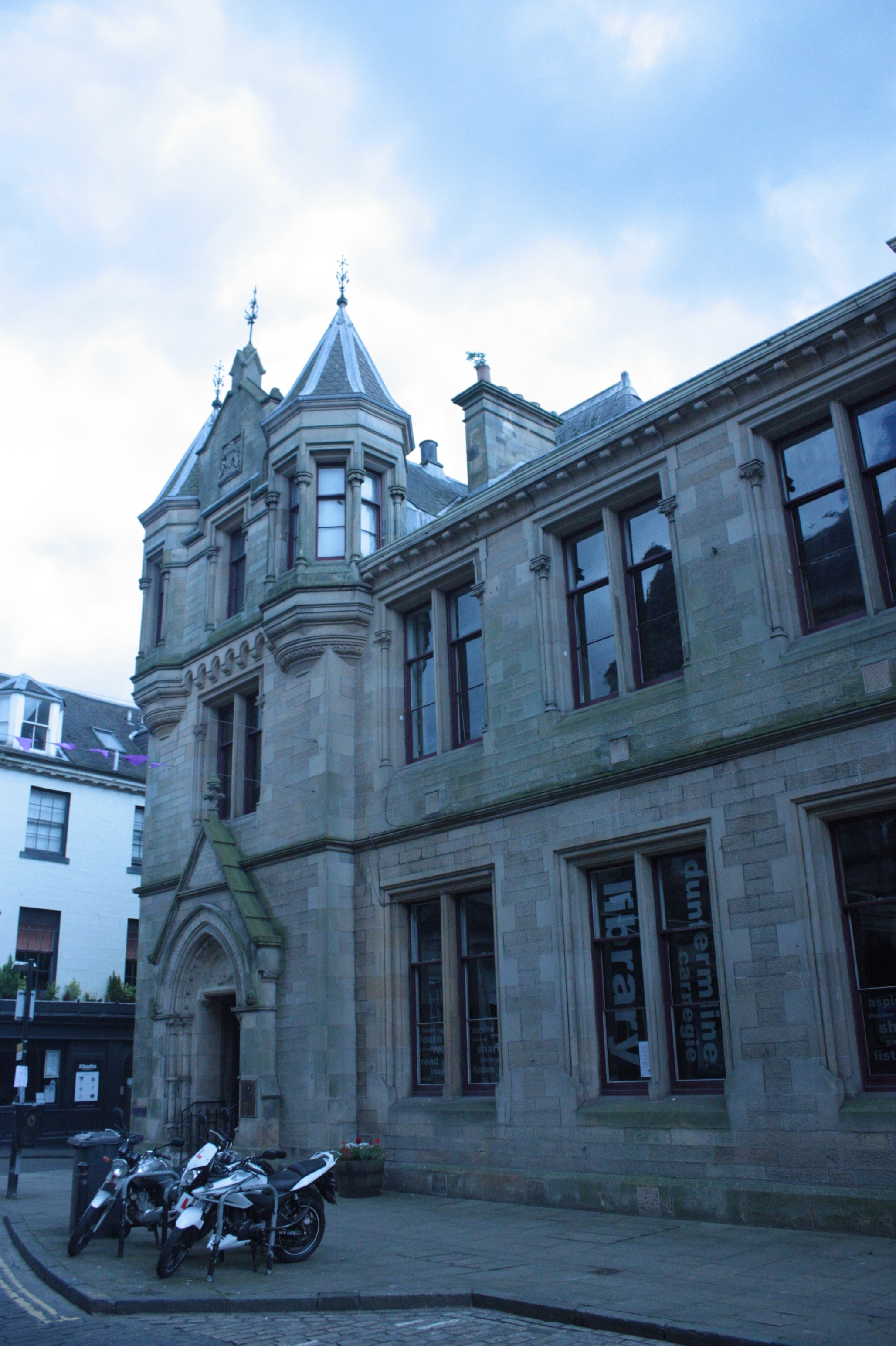 The world's first Carnegie Library, in Dunfermline